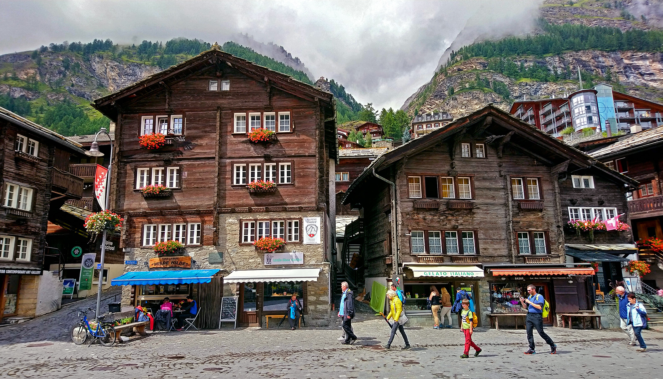 Zermatt, Switzerland.